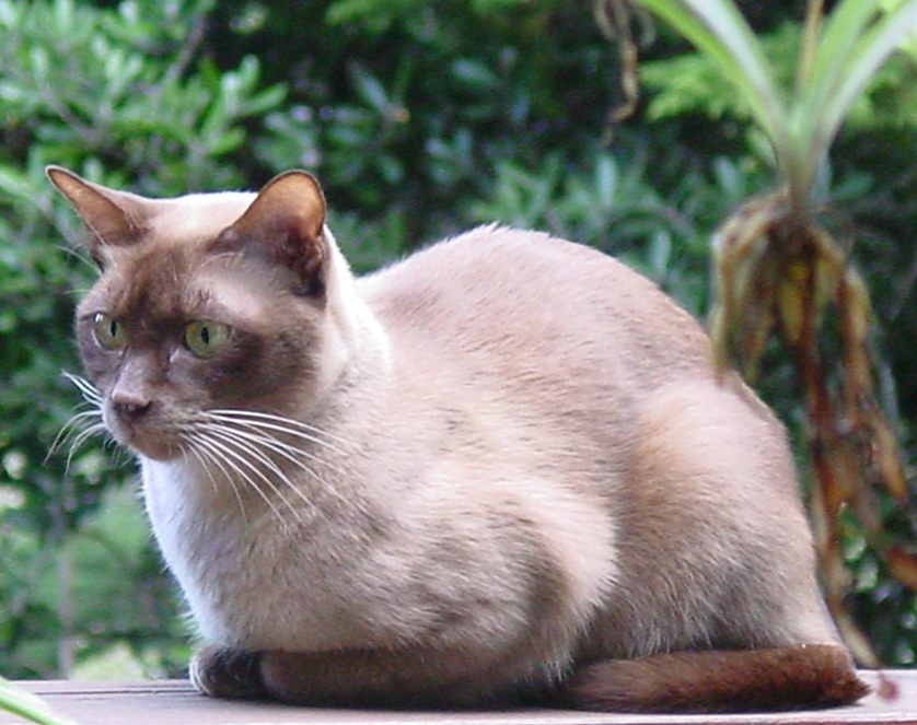 Chocolate Burmese cat, "Pipmo Golden Padung"